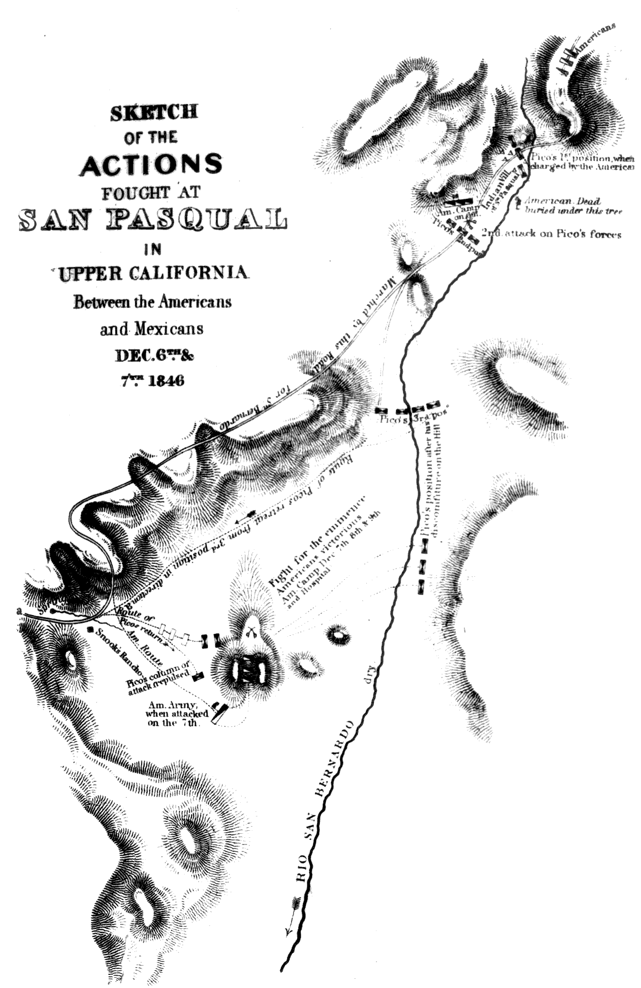 Until now, the only existing images of this map are low resolution and illegible. This is a great improvement. It took me hours to find this.